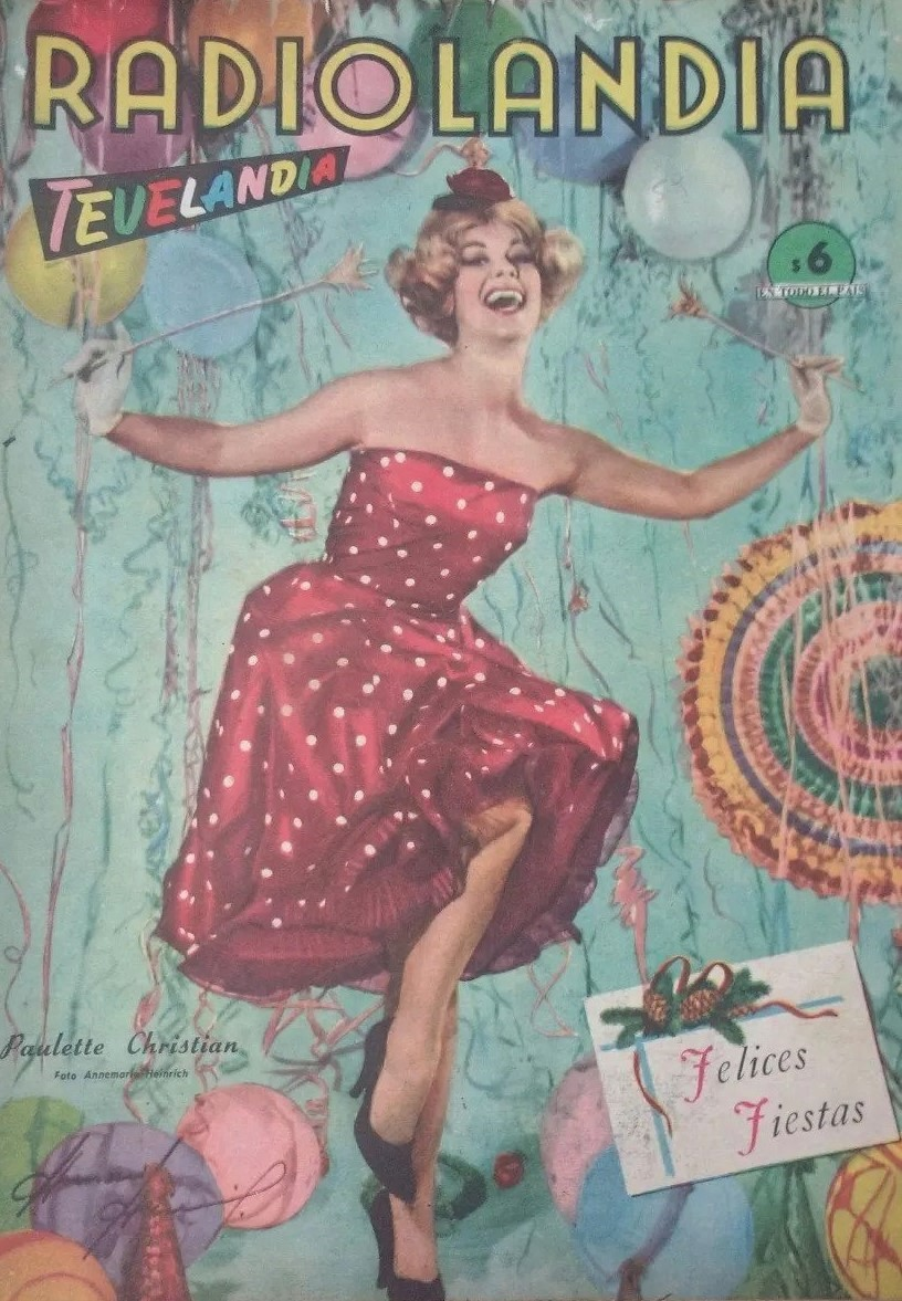 Paulette Christian on cover of Radiolandia, December 1959. Photograph by Annemarie Heinrich